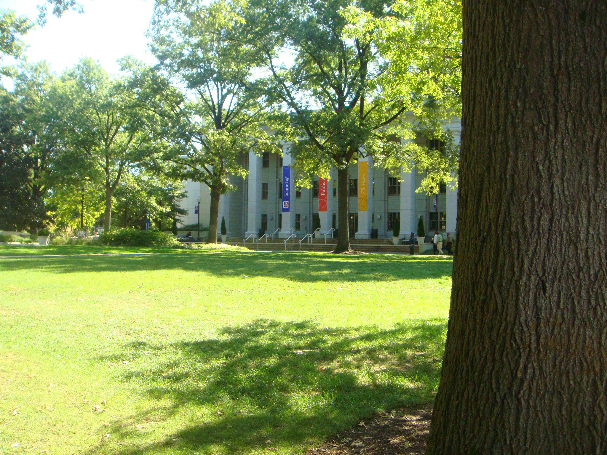 School of Public Affairs, Ward-Circle Building, American University